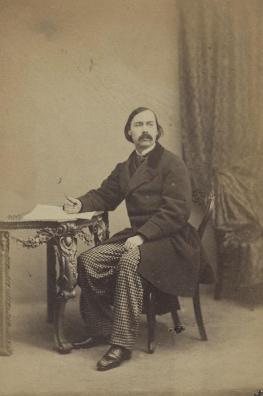 A portrait from the Welsh Portrait Collection at the National Library of Wales. Depicted person: John Thomas – Welsh composer and harpist, called Pencerdd Gwalia